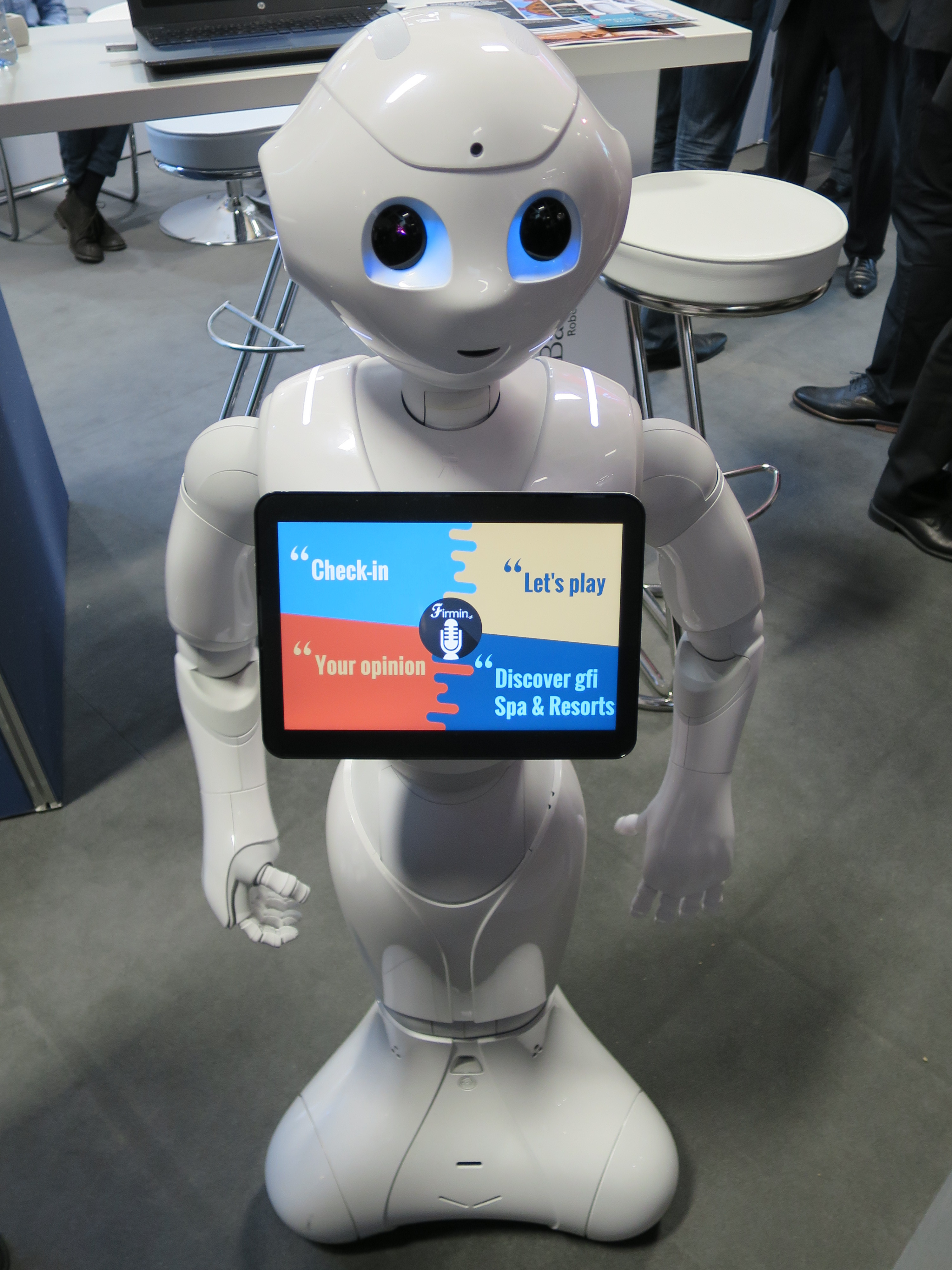 Humanoid Robot.